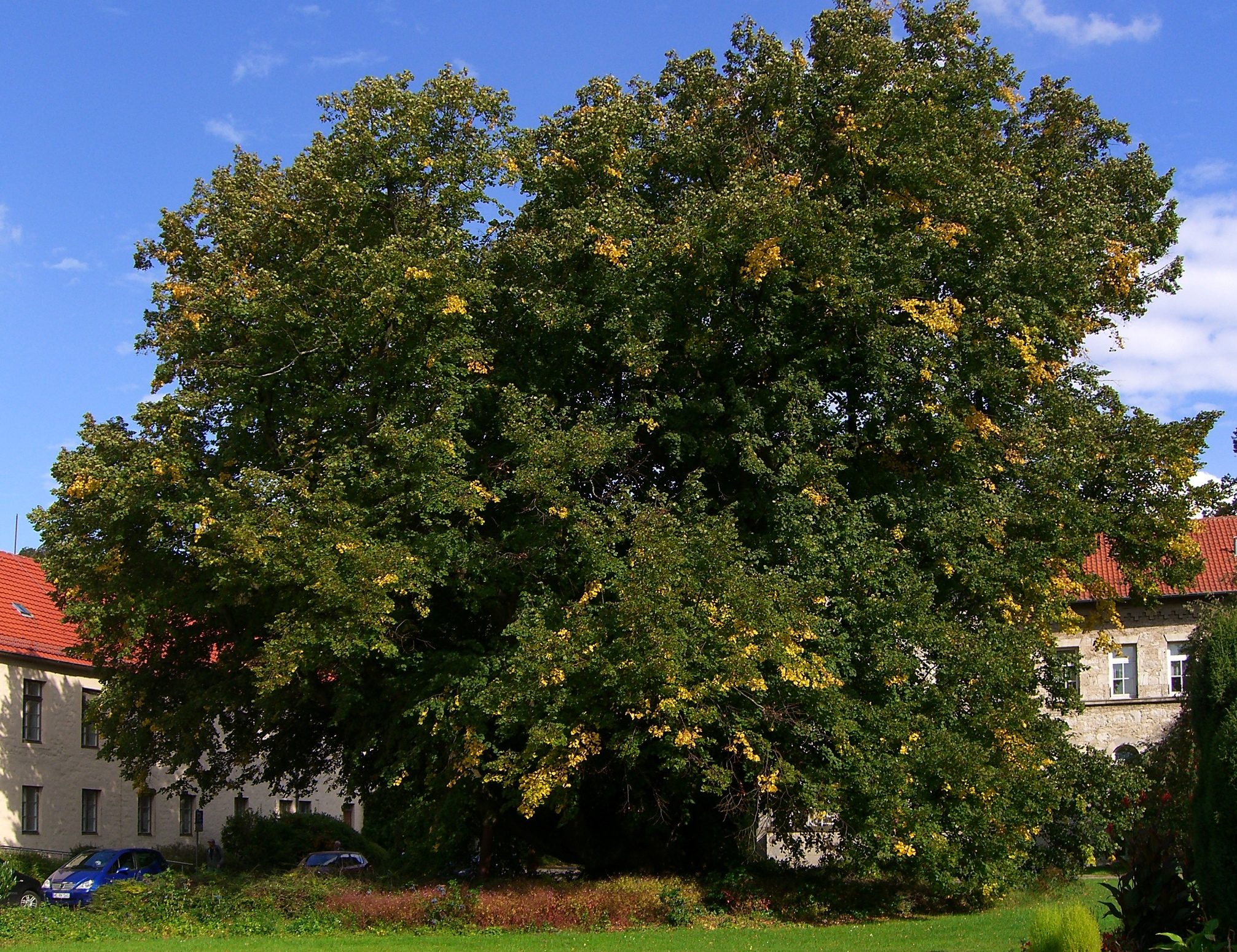 Limetree "Emperor Lothair" at the monastery church (Kaiserdom) in Königslutter.